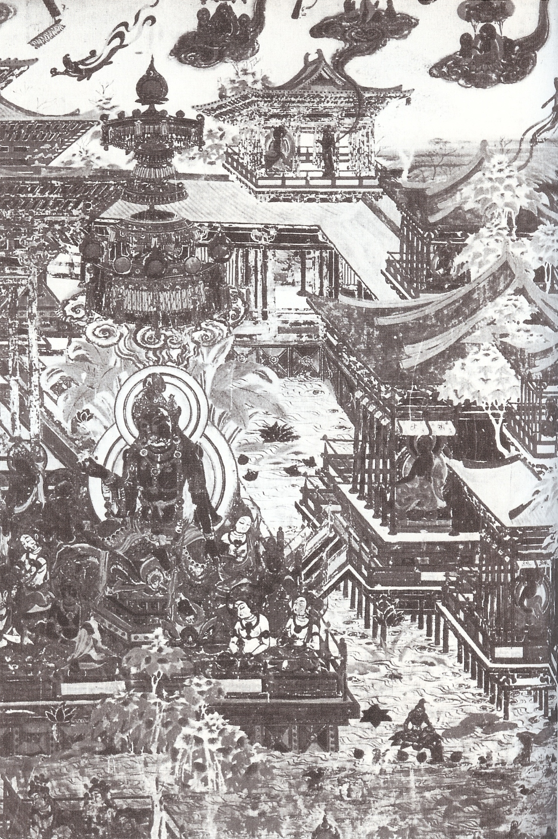 The Buddhist Paradise of Amitabha, a painted mural from Cave 172 of Dunhuang, Gansu province, China, Tang Dynasty (618–907 AD)